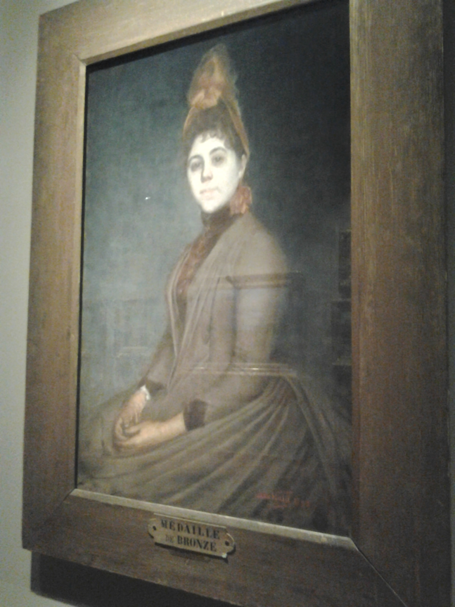 Halil Paşa, Portrait of Madame X, 1889. Karton, pastelle, Sakıp Sabancı Müzesi